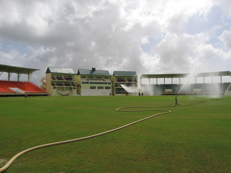 Creator: FrWaters Source: Personally taken photograph, Georgetown, Guyana